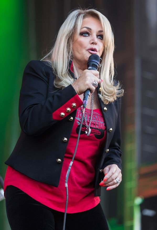 Bonnie Tyler in concert